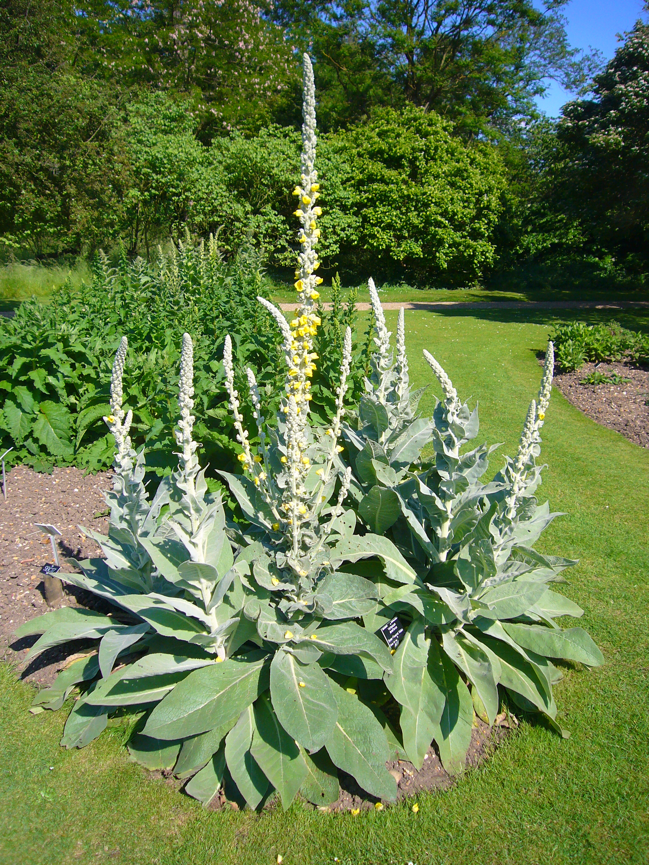 Verbascum densiflorum "dense-flowered mullein" (plant) (photo taken in the Cambridge University Botanic Garden) Deitsch: pdc:Wollgraut